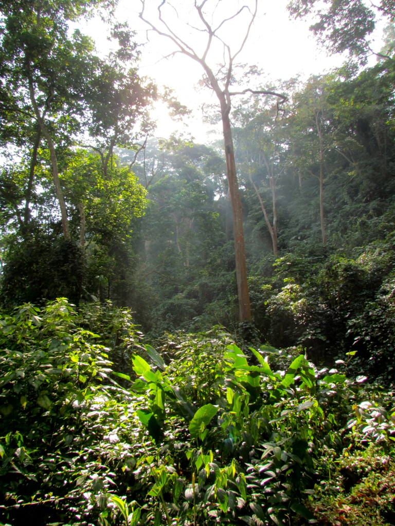 Sierra de Perijá, luces